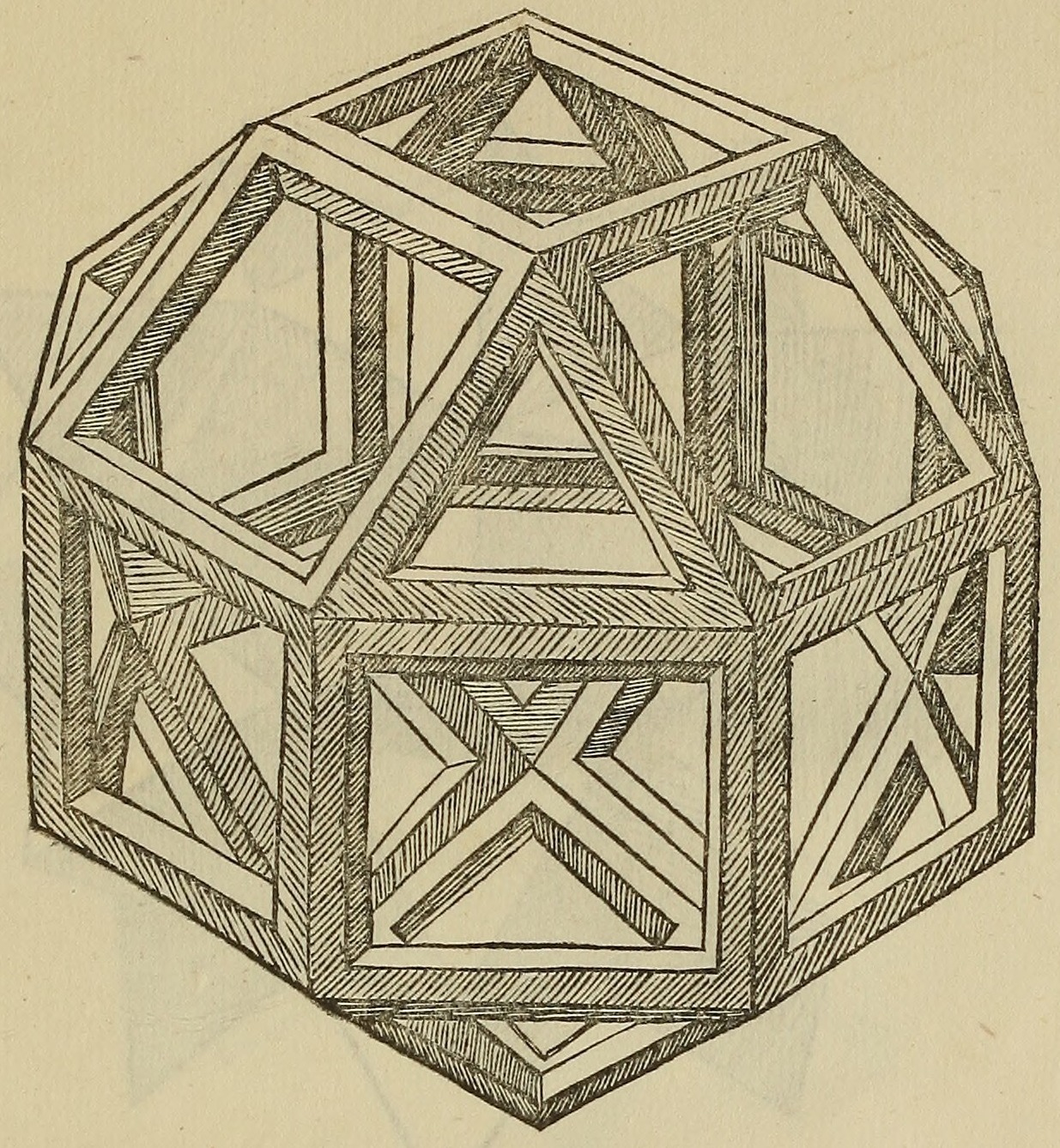 Illustrations by Leonardo da Vinci, from Luca Pacioli's "De divina proportione", 1509 edition.